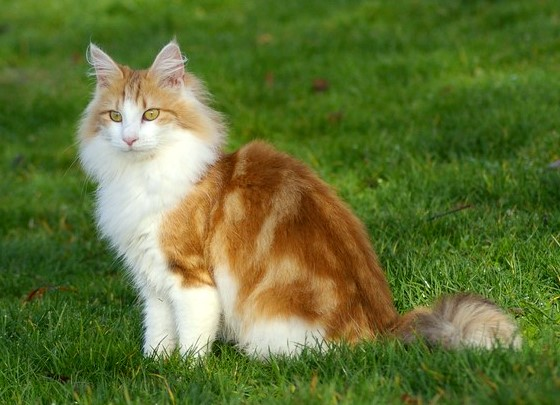 Dalaja Doll du Gang des Burgondes norwegian forest cat female of amber color blotched tabby and white, making first Norwegian kittens amber be born in France